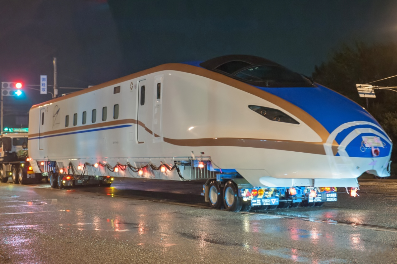 Newly-built JR West W7 series shinkansen car W714-511 of set W11 being transported by road from Kanazawa Port to Hakusan Depot